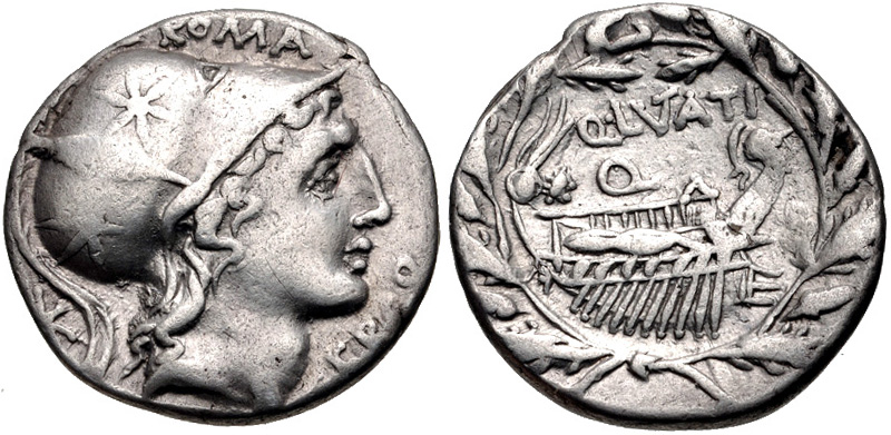 Q. Lutatius Cerco. 109-108 BC AR Denarius (18mm, 3.82 g, 12h). Rome mint. Helmeted head of Roma (or Mars) right; mark of value to left / Galley right with head of Roma on prow; all within oak wreath. Crawford 305/1; Sydenham 559; Lutatia 2. VF, lightly toned, faint hairlines on the obverse. From the Demetrios Armounta Collection. Ex Classical Numismatic Group Electronic Auction 144 (26 July 2006), lot 239; Classical Numismatic Group 47 (16 September 1998), lot 1173.